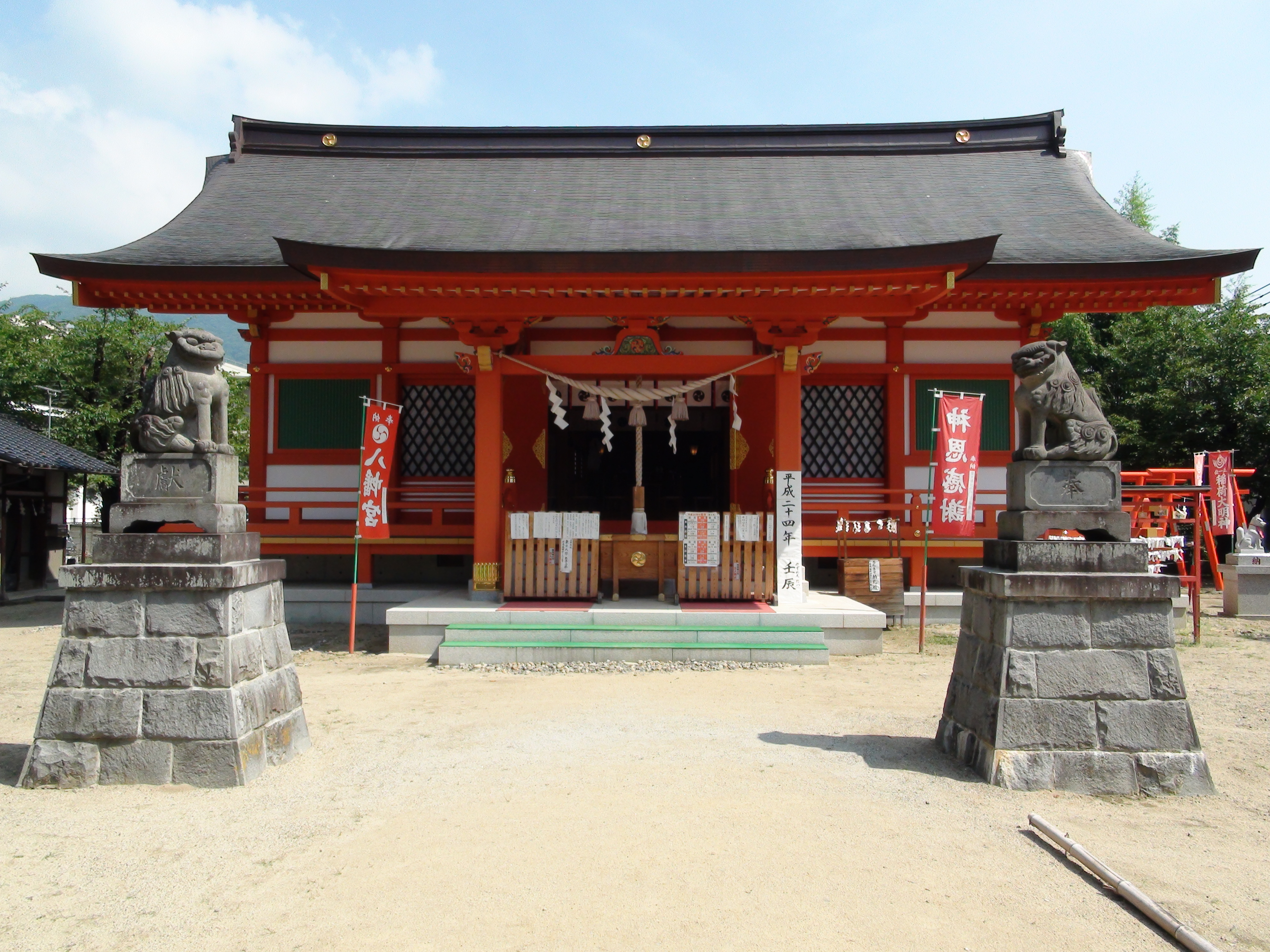 Isawa Hachiman Jinja Haiden